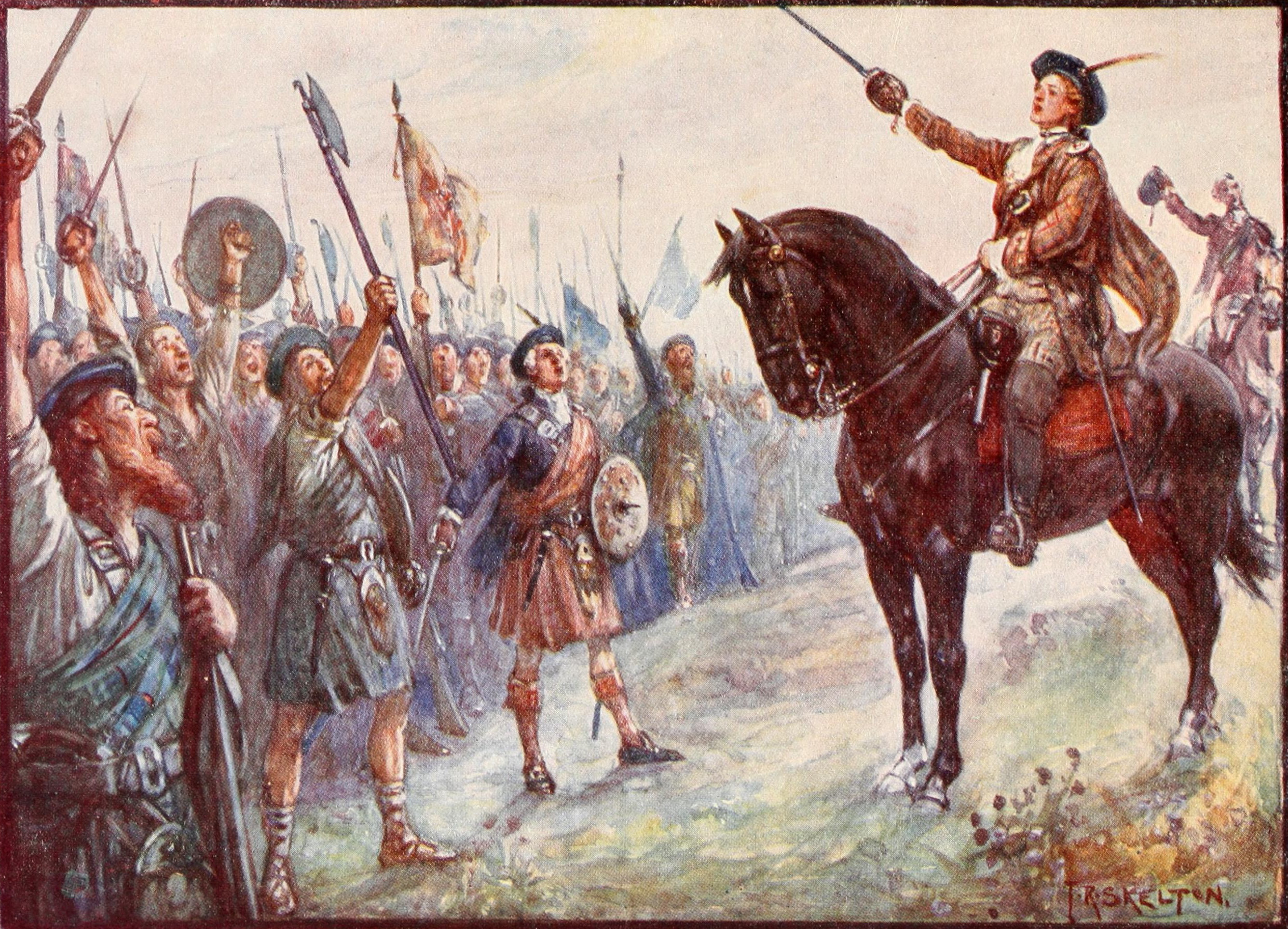 Scotland's story : a history of Scotland for boys and girls by Marshall, H. E. (Henrietta Elizabeth), b. 1876 Published 1907 SHOW MORE List of Kings from Duncan I.: p. 419-421 Publisher London : T.C. & E.C. Jack Pages 496 Possible copyright status NOT_IN_COPYRIGHT Language English Digitizing sponsor MSN Book contributor New York Public Library Collection newyorkpubliclibrary; americana Full catalog record MARCXML [Open Library icon]This book has an editable web page on Open Library.